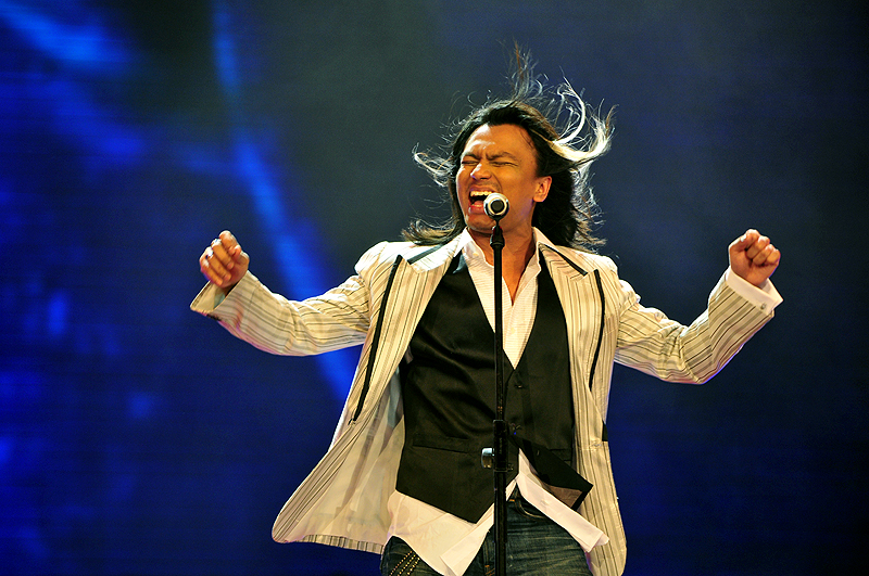 Anugerah Juara Lagu 23 Rehearsal